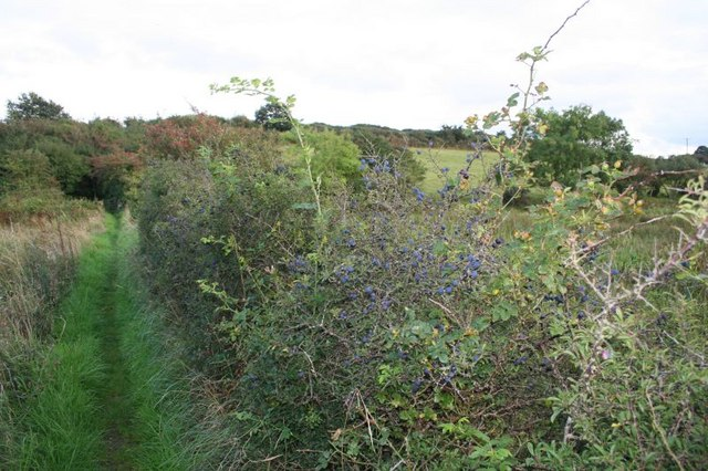 Berries in the hedge I think they are sloes, where's the gin?